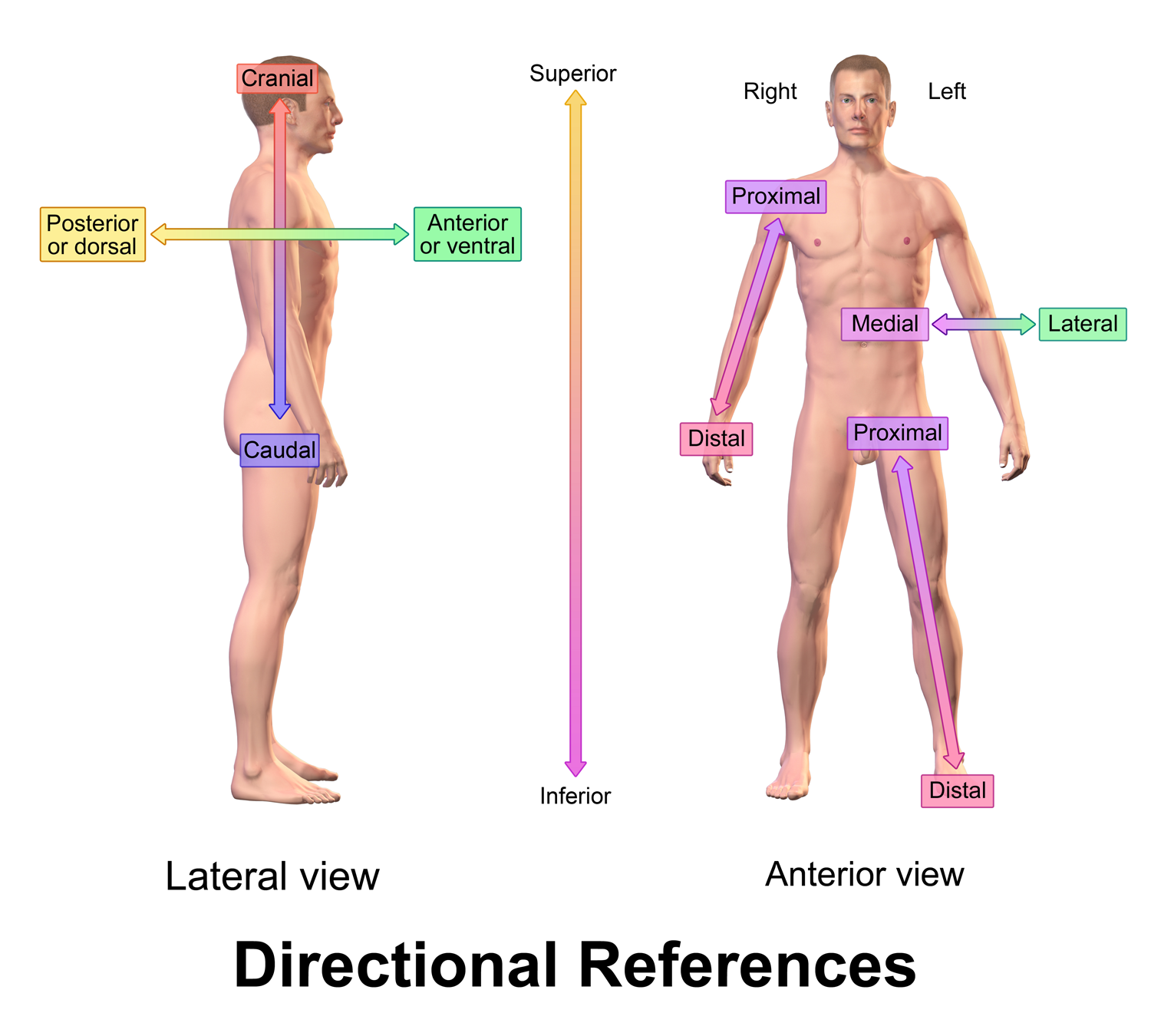 Directional References. This image was donated by Blausen Medical. Please visit our website to see more medical illustrations and animations.